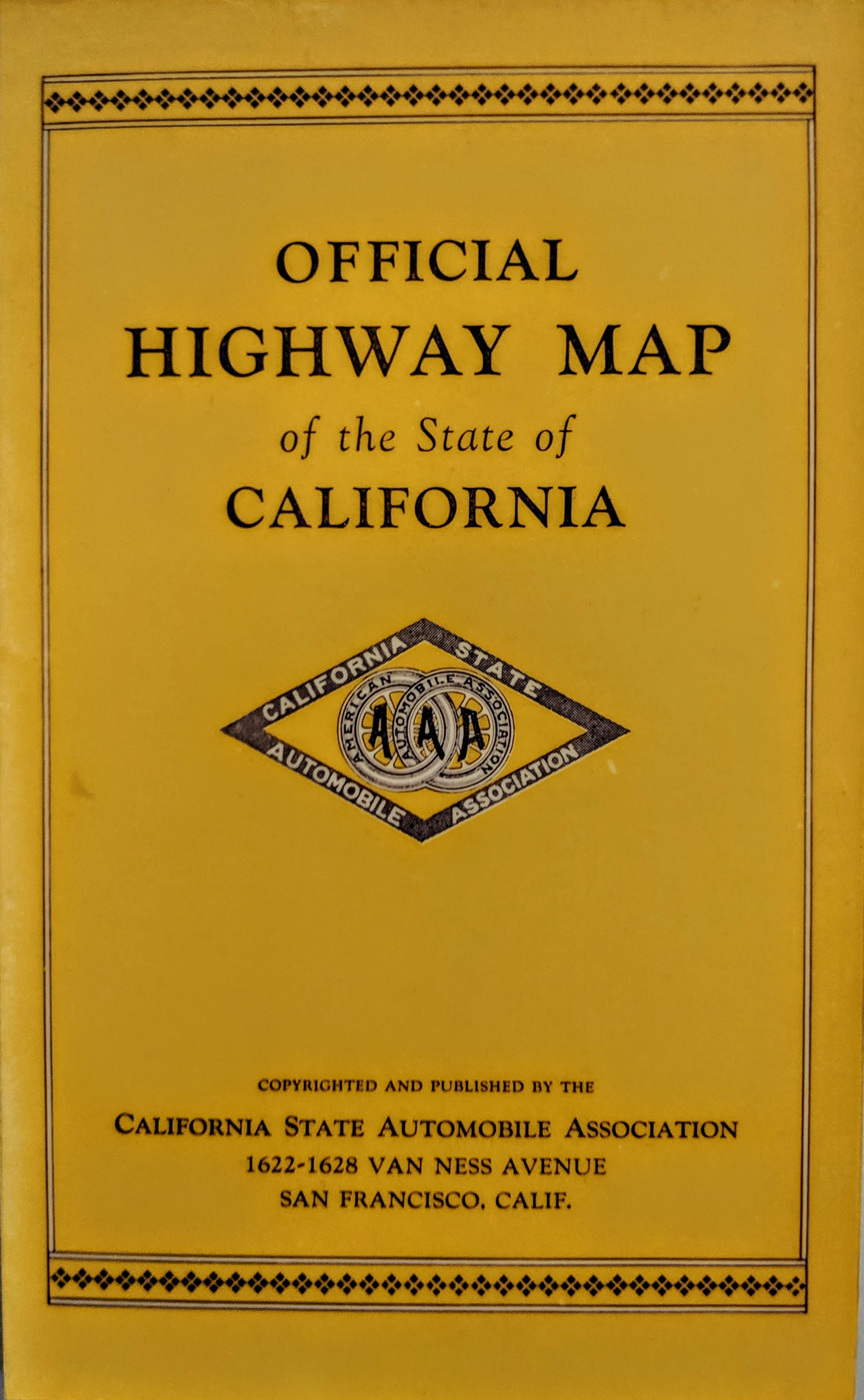 The cover of the first highway map published by the California State Automobile Association in 1909. The copyright has expired.